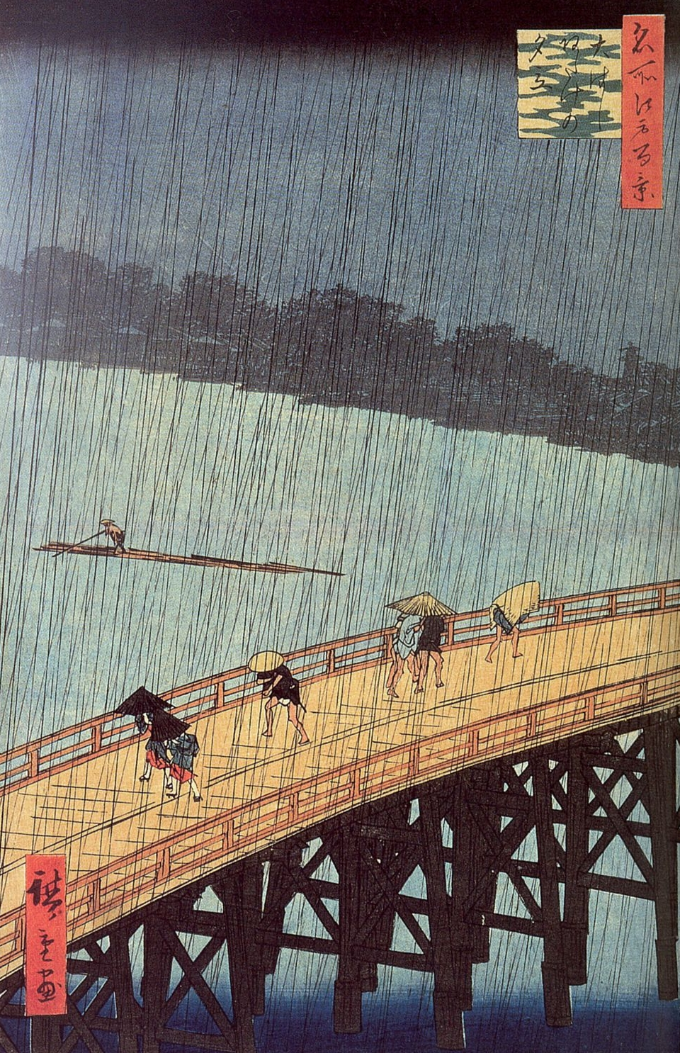 Evening Shower at Atake and the Great Bridge from the serie One Hundred Famous Views of Edo (Meisho Yedo Hiakkei, 1856-1858). View 52 Polychrome xylography, Nishiki-e Publisher: Uoya Eikichi Size: Ōban Tateye (37,4 x 25,6 cm) (Ōban = one of paper size used in Japanese woodblock prints, tateye = vertical orientation)